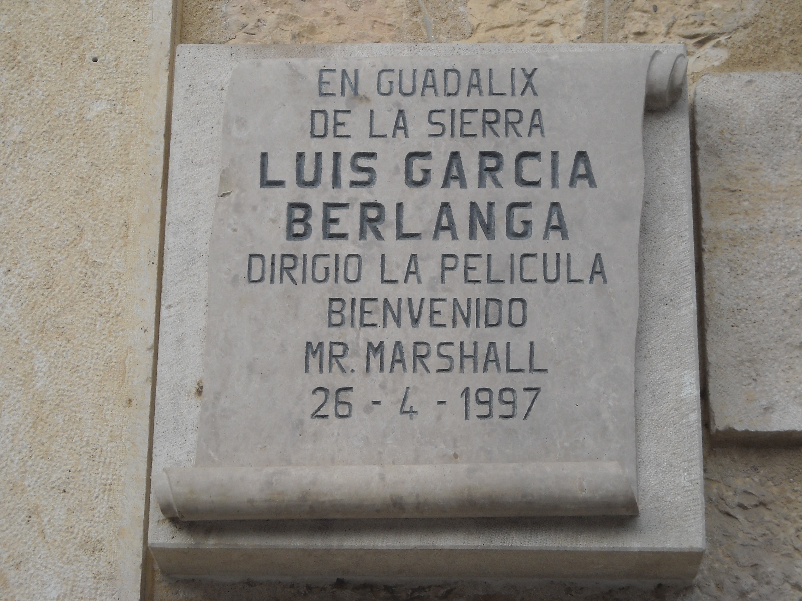 Plaque commemorating the filming of Welcome Mr. Marshall!, Guadalix de la Sierra, Madrid, Spain